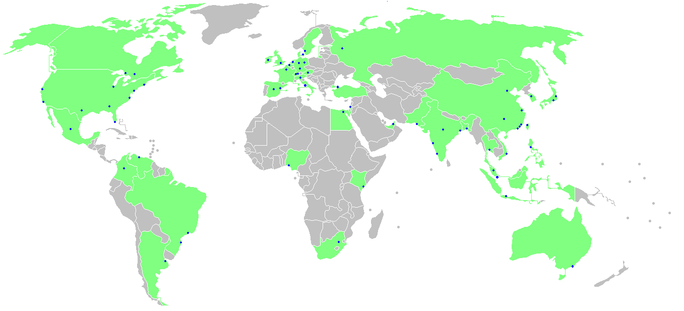 photo.php?fbid=516714285064202&set=a.144563098945991.32480.100001769055152&type=1 Global cities are represented by blue dots. Countries that have global cities are colored in celadon.